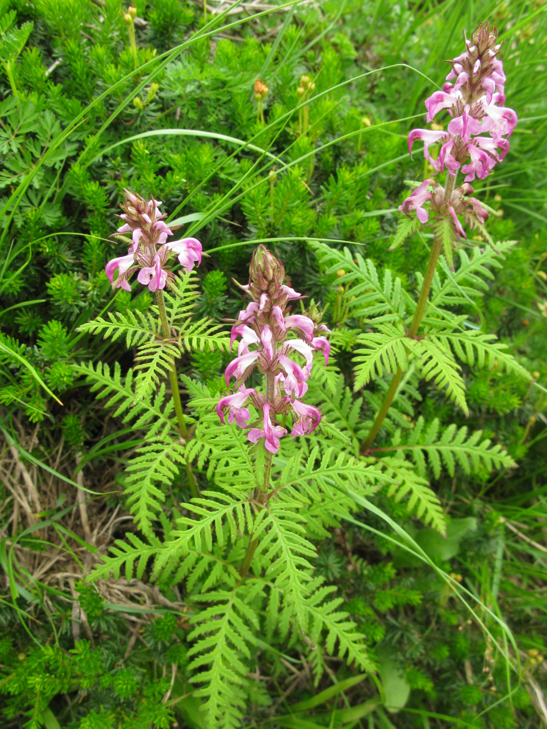 Pedicularis chamissonis var. japonica, Mt. Iide, Fukushima pref., Japan